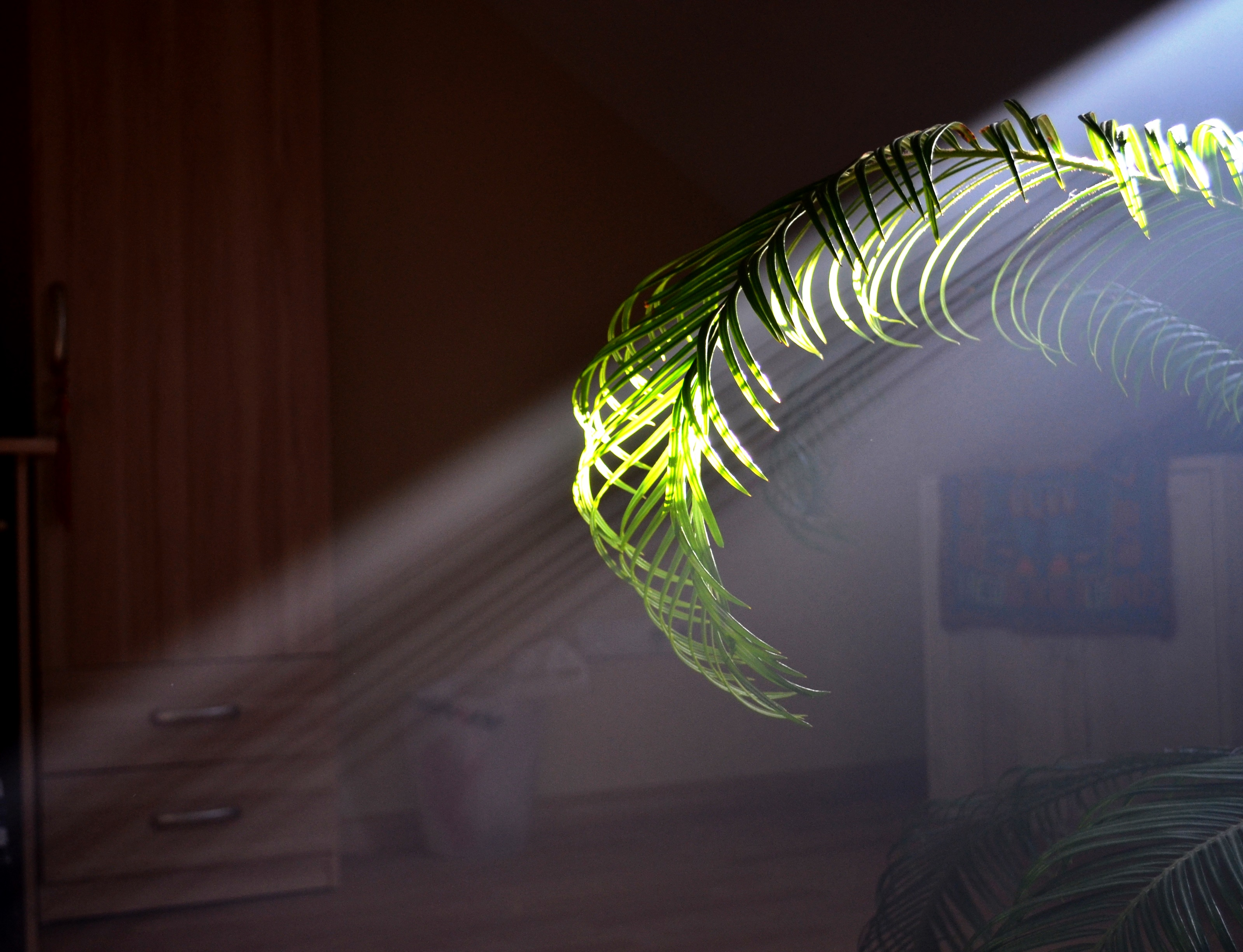 Ligth and shadow composition with Cycas